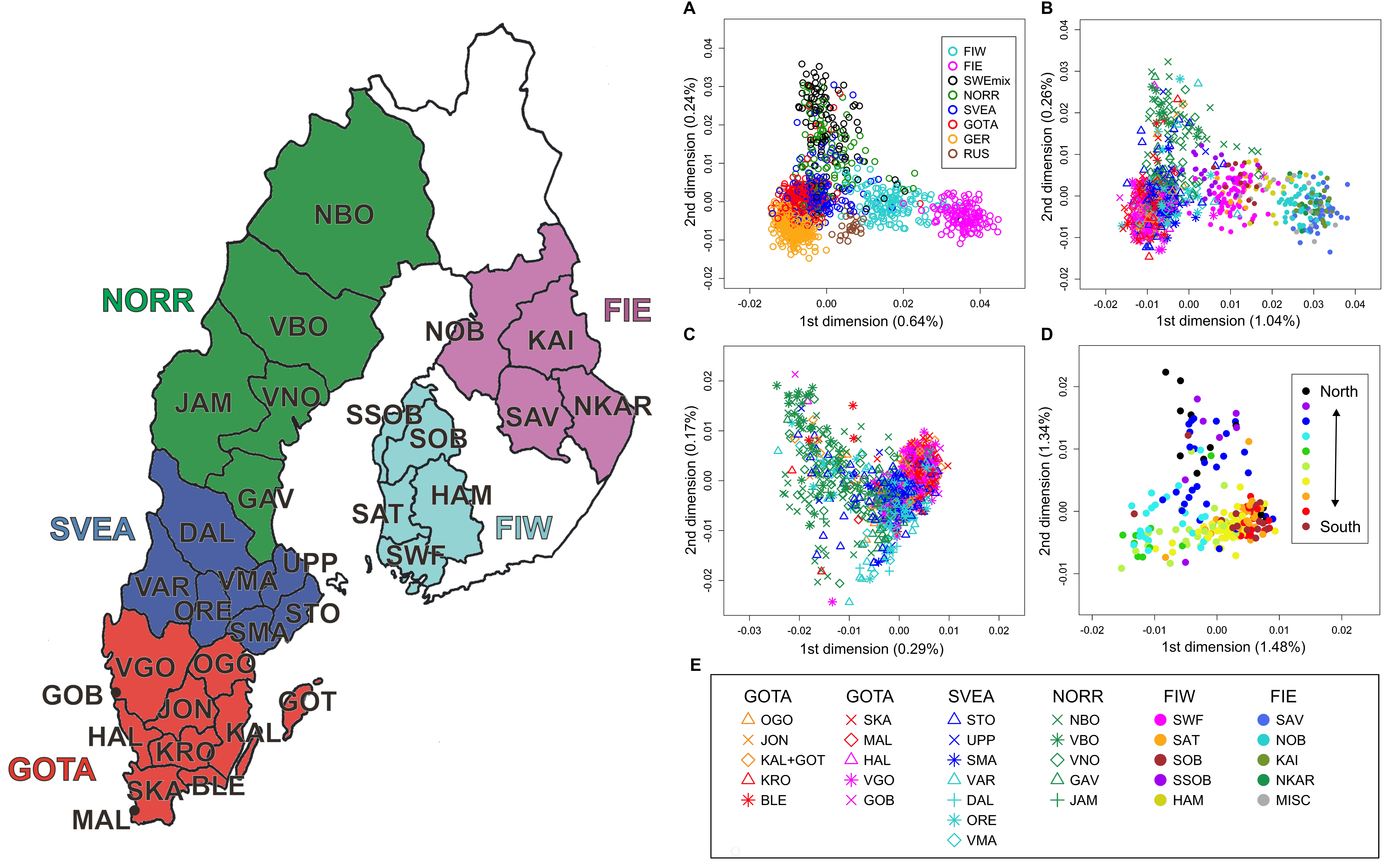 Principal component analysis of genetic data of Swedish and Finnish populations. Left: A map of the studied provinces and regions of Sweden and Finland. Full population names and their sample sizes are given in the Table below. Right: Multidimensional scaling plots of genetic distances between individuals. Identity by state (IBS) distances in Northern Europe (a), Sweden and Finland (b), Sweden (c) and Norrland (d), with the legend for panels (b) and (c) in (e). The axis labels show the proportion of variance explained by the axis. In (d), the colouring of individuals represents one of the ten major river valleys of Norrland, from north to south. See also GIF file (File:3D PCA of SWE and FIN.gif) for animated three-dimensional versions of (a) and (b).